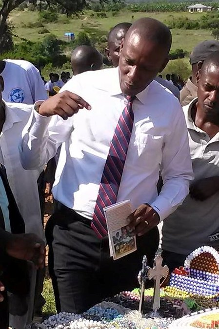 Tusiime in October 2016